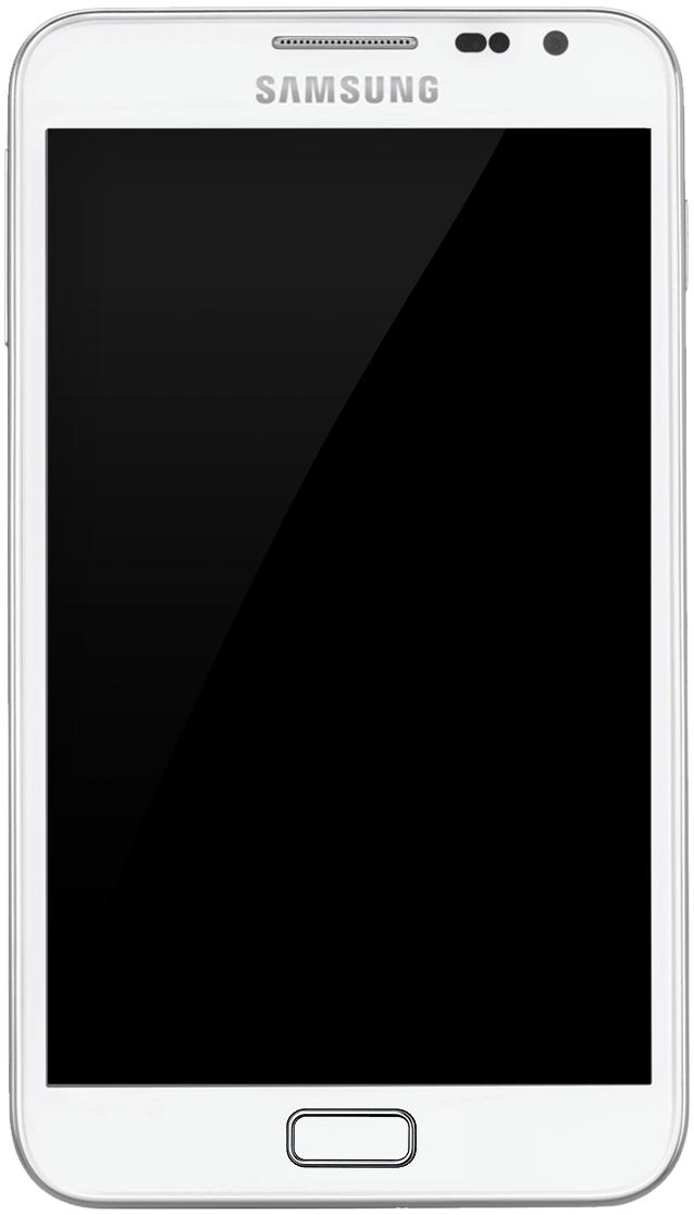 Samsung Galaxy Note render